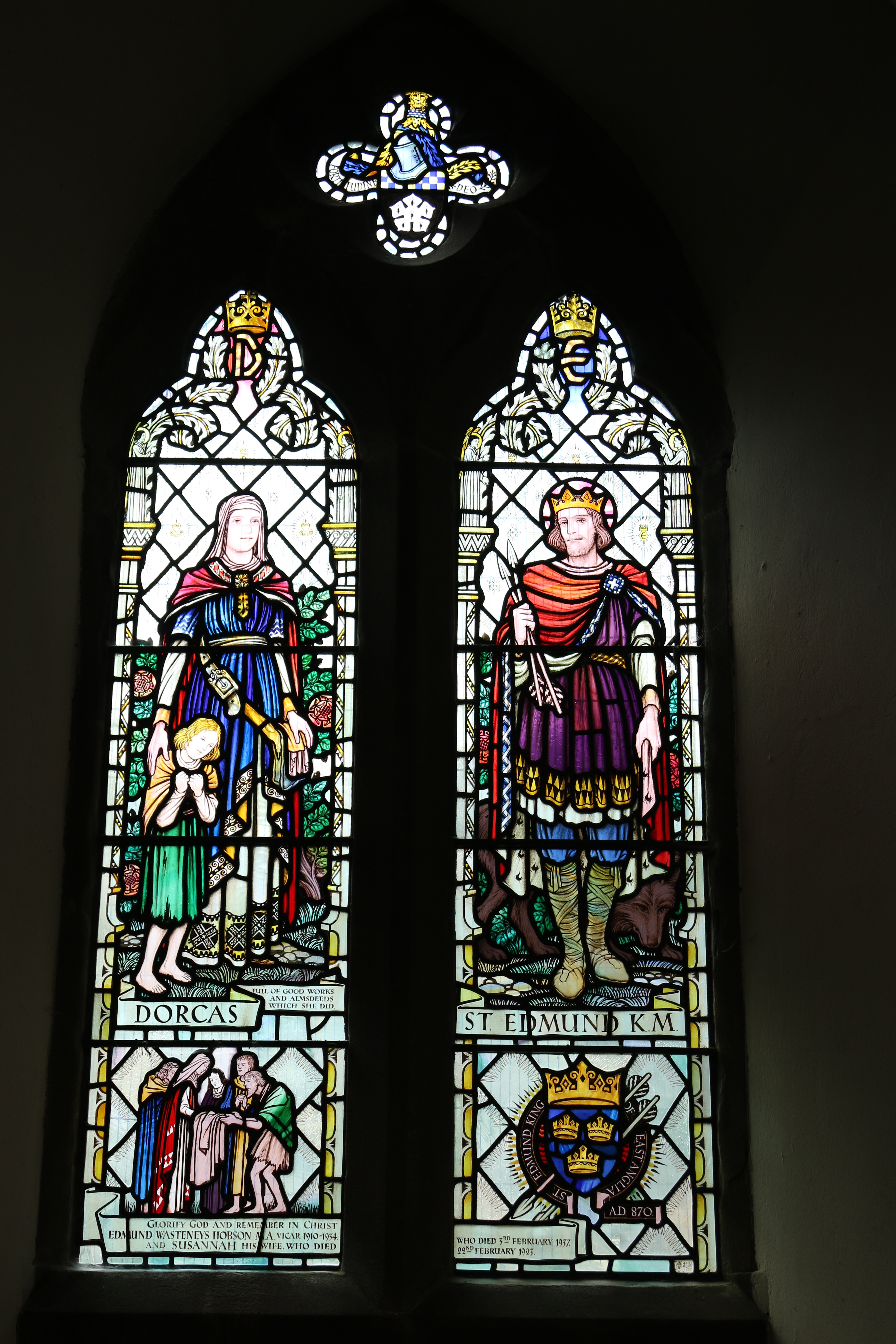 Stained glass window in memory of Edmund Wasteneys Hobson, and Susanna his wife. Window by Hincks and Burnelll, Nottingham. 1937